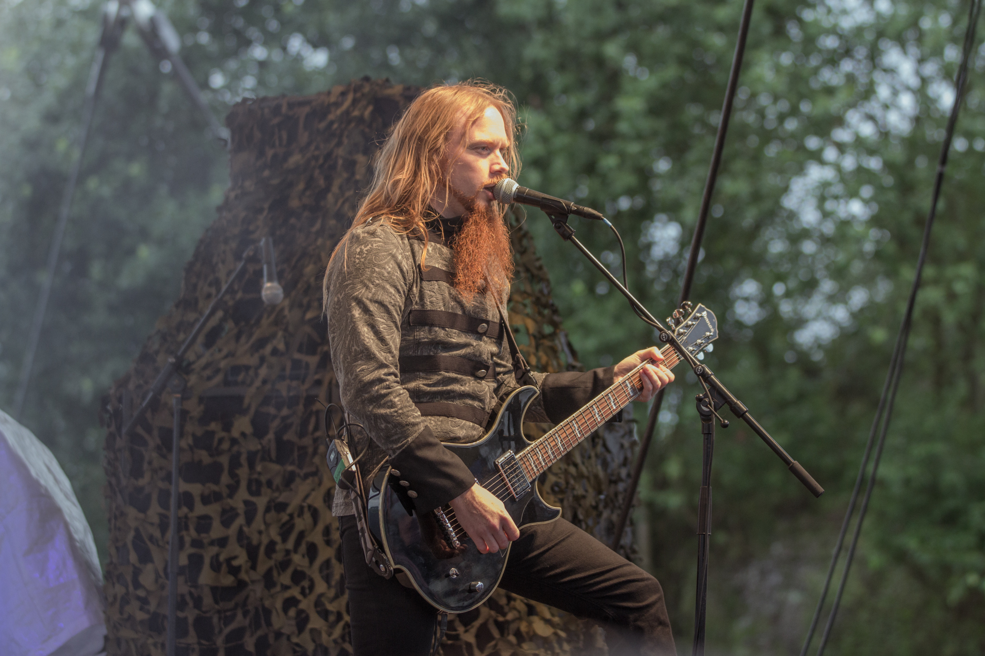 Civil War at Noch ein Bier Fest 2015 (Amphitheater, Gelsenkirchen, North-Rhine-Westphalia, Germany) on 25th July 2015